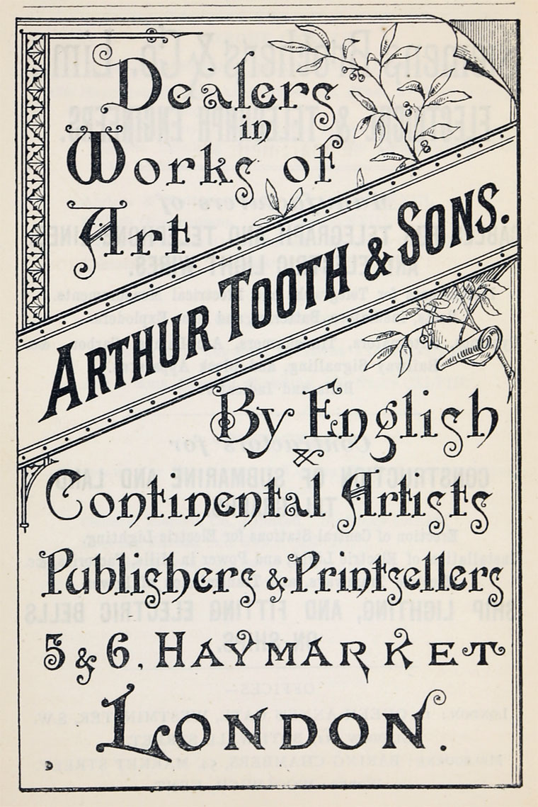 Advert for Arthur Tooth & Sons.